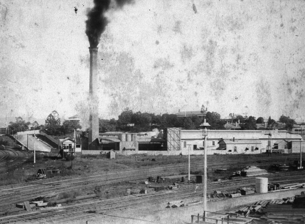 View of the Roma Street railway station, ca. 1900. View of the Roma Street Railway Station with the tramway Power Station in Countess Street visible to the right.